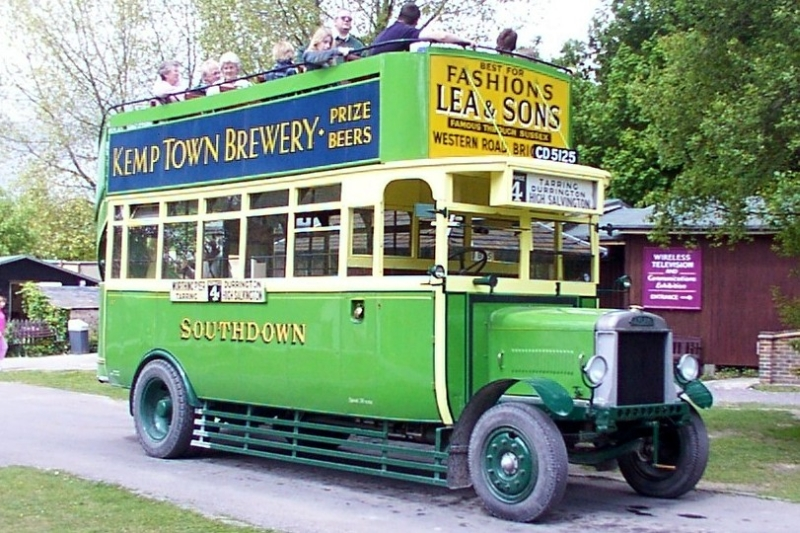 Preserved Southdown bus 125 (reg. CD 5125), a Leyland N Type with Short Brothers bodywork, pictured at the Amberley Museum & Heritage Centre in Amberley, West Sussex. The N Type was only built from 1919 to 1921. This bus was built in 1920 as a solid tyred single-decker. In 1928 it was rebodied as an open top double-decker body with pneumatic tyres.